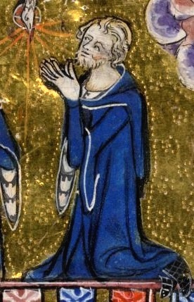 Reginald II of Guelders in prayer, Yates Thompson 13